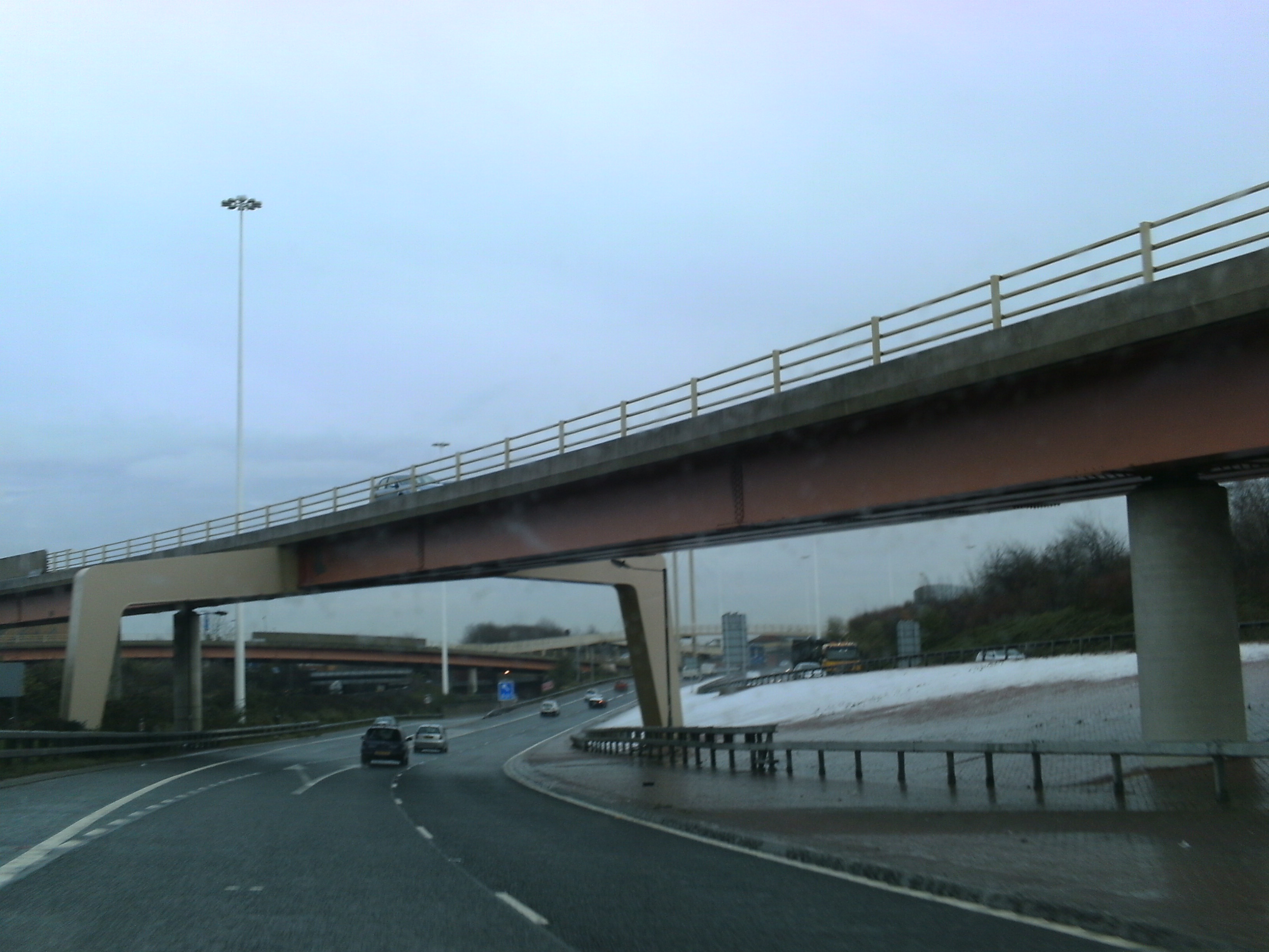 M621 Junction 4 sliproad at Hunslet, Leeds